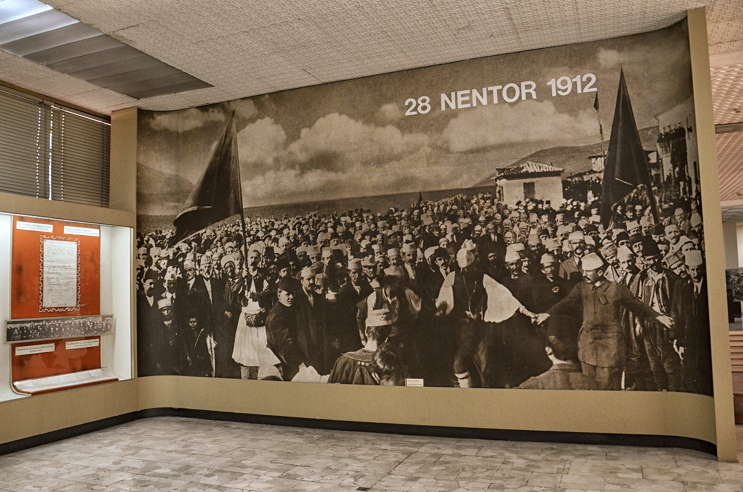 The room of the independence (Vlorë Assembly) in the National Museum of History in Tirana, Albania